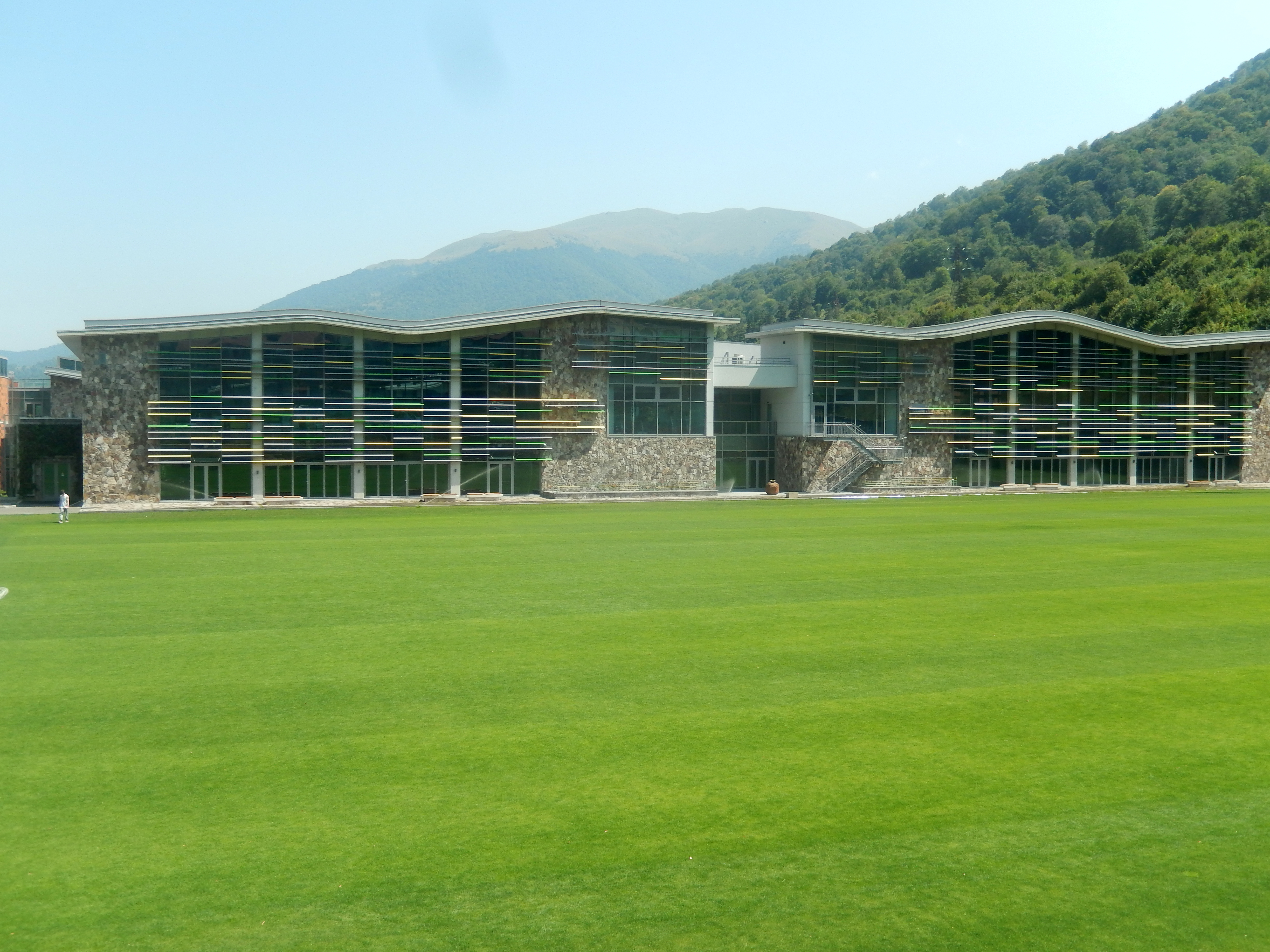 Dilijan International School of Armenia, Building